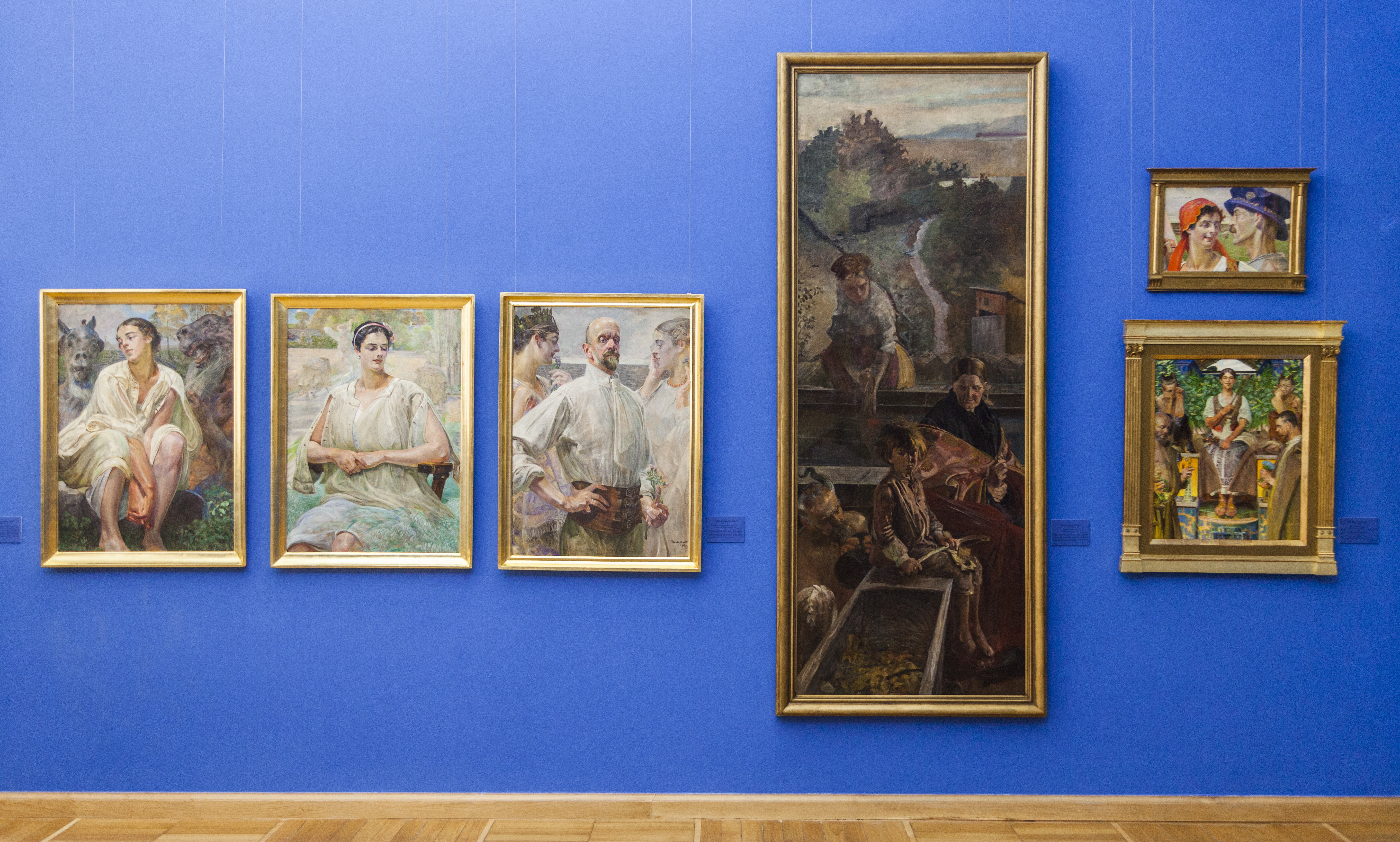 Exposition of paintings by Jacek Malczewski in District Museum in Toruń.